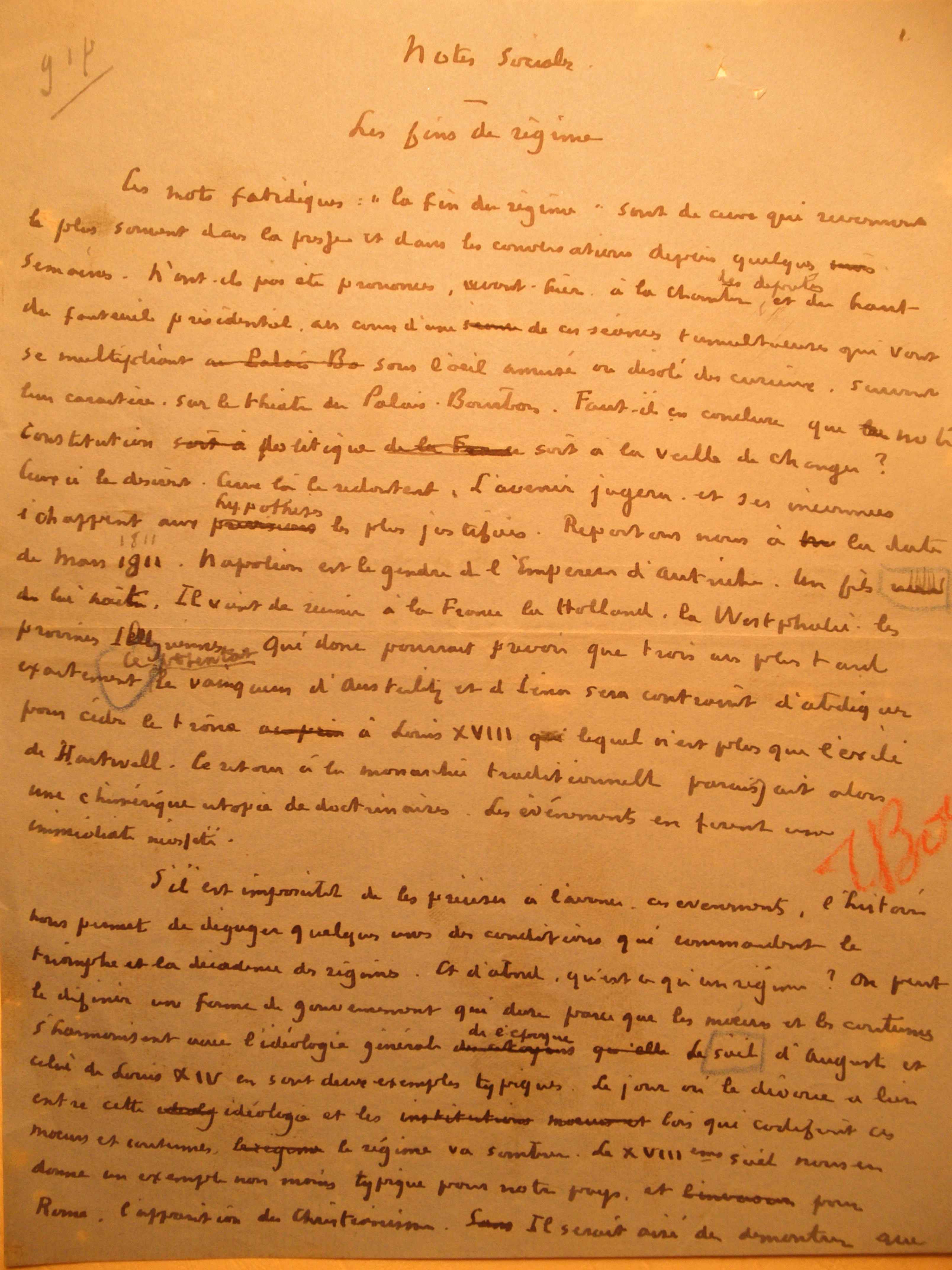 manuscrit 1914 1929